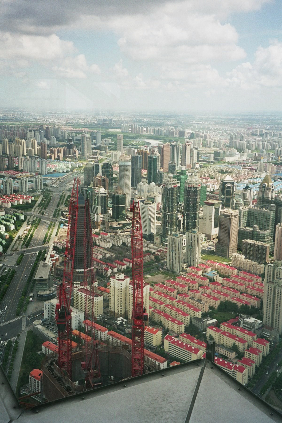 View from Jin-Mao-Tower in Shanghai, September 2006.